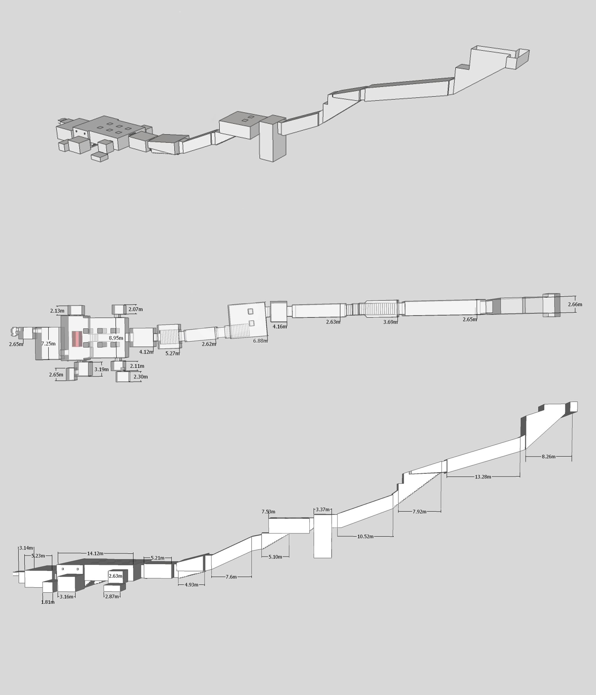 Isometric, plan and elevation images of KV57 taken from a 3d model